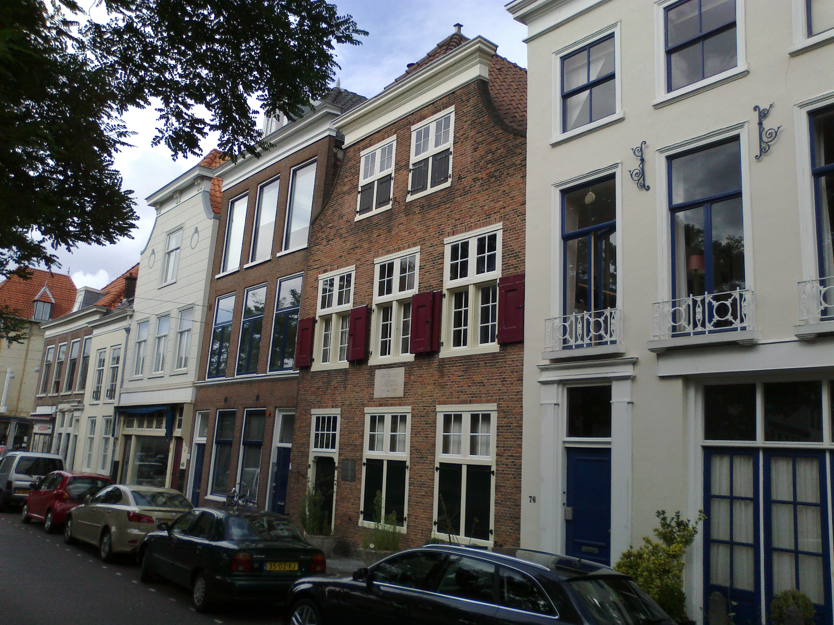 Spinoza House on Paviljoensgracht in the former Jewish neighborhood in The Hague. In this house the philosopher Baruch Spinoza (Benedict de Spinoza) died in 1677.